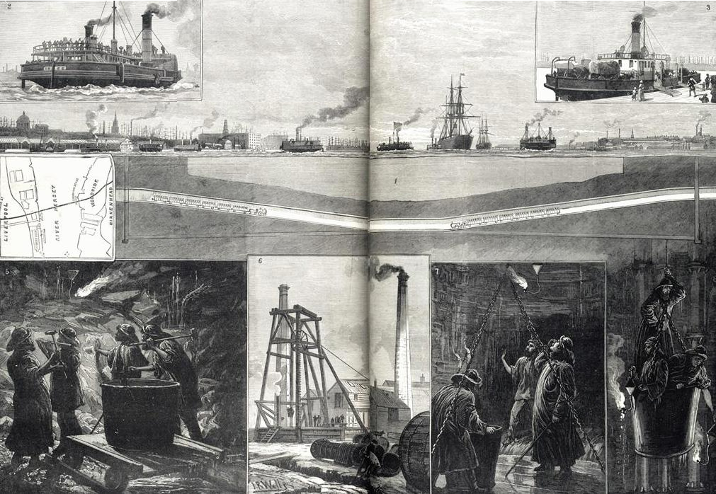 These illustrations record the process of the building of the Mersey Railway Tunnel beneath the River Mersey between Liverpool and Birkenhead.